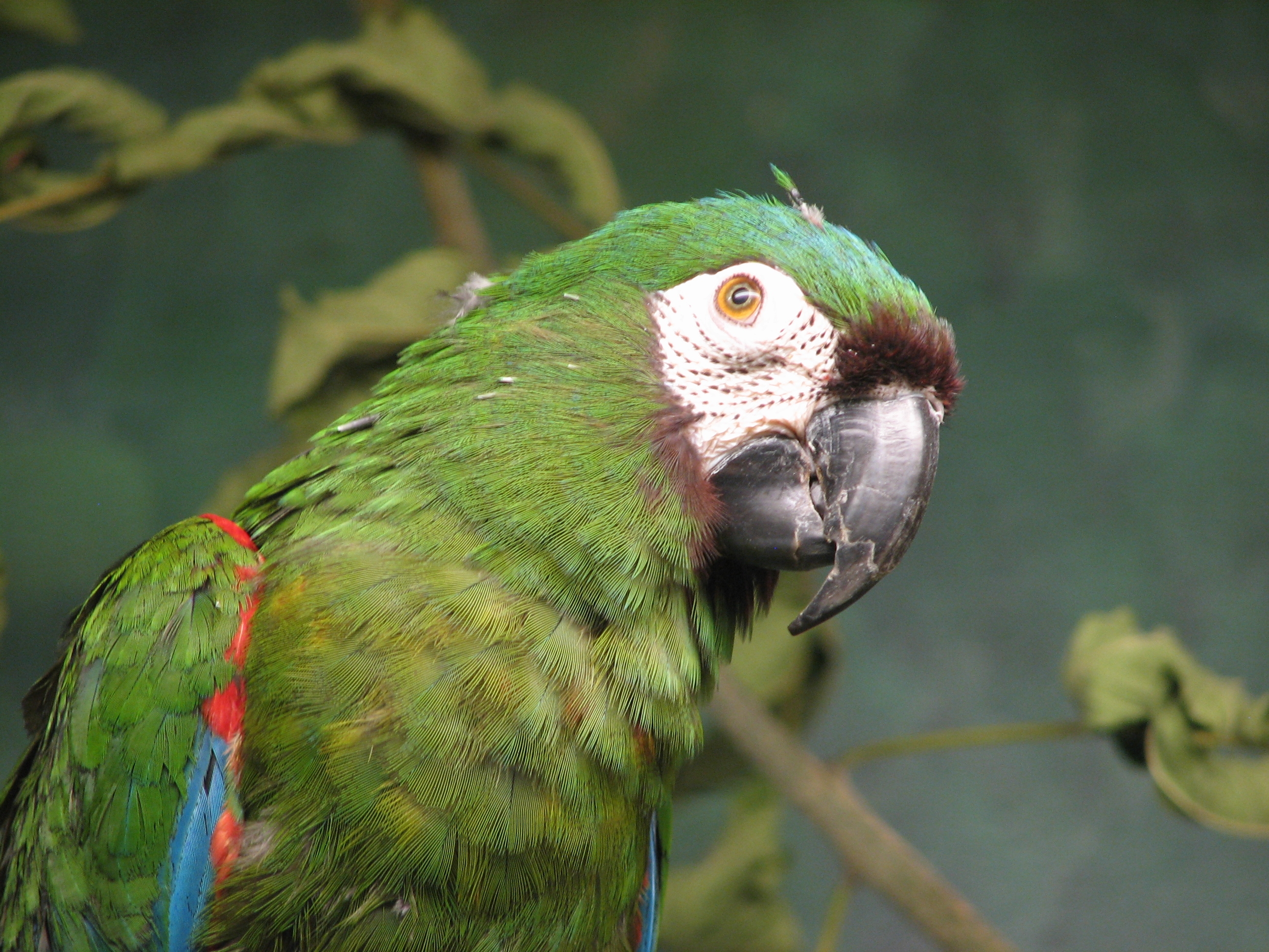 Chestnut-fronted Macaw (Ara severa)